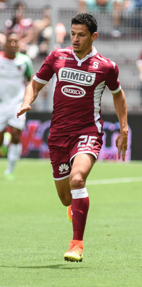 Daniel Colindres playing for Deportivo Saprissa in 2016.